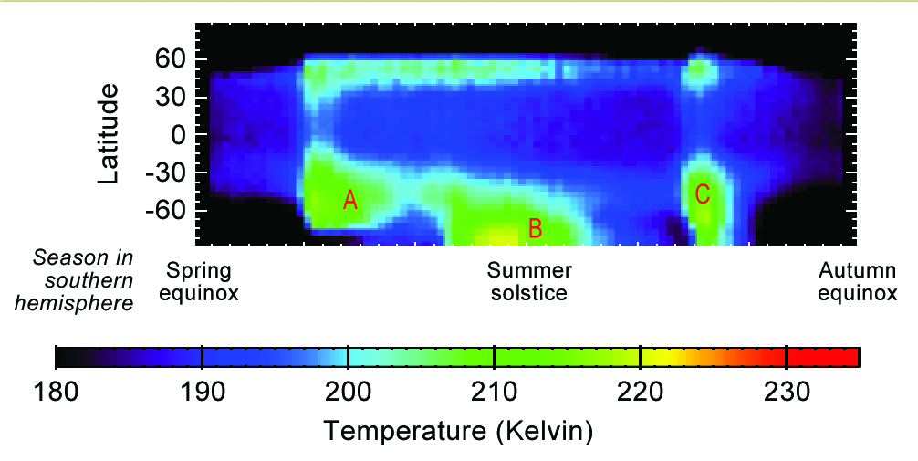 This graphic shows Martian atmospheric temperature data related to seasonal patterns in occurrence of large regional dust storms. The data shown here were collected by the Mars Climate Sounder instrument on NASA's Mars Reconnaissance Orbiter over the course of one-half of a Martian year, during 2012 and 2013. The color coding indicates daytime temperatures of a layer of the atmosphere centered about 16 miles (25 kilometers) above ground level, corresponding to the color-key bar at the bottom of the graphic. Three regional dust storms indicated by increased temperatures are labeled A, B and C. A similar sequence of three large regional dust storms has been seen in atmosphere-temperature data from five other Martian years. The vertical axis is latitude on Mars, from the north pole at the top to south pole at the bottom. Each graphed data point is an average for all Martian longitudes around the planet. The horizontal axis is the time of year, spanning from the beginning of Mars' southern-hemisphere spring (on the left) to the end of southern-hemisphere summer. This is the half of the year when large Martian dust storms are most active. NASA's Jet Propulsion Laboratory, Pasadena, California, built and operates the Mars Climate Sounder, and manages the Mars Reconnaissance Orbiter mission. Lockheed Martin Space Systems, Denver, built the orbiter.